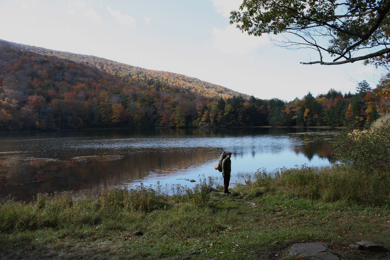 Looking Southwest across Echo Lake in the Catskills, New York, USA.